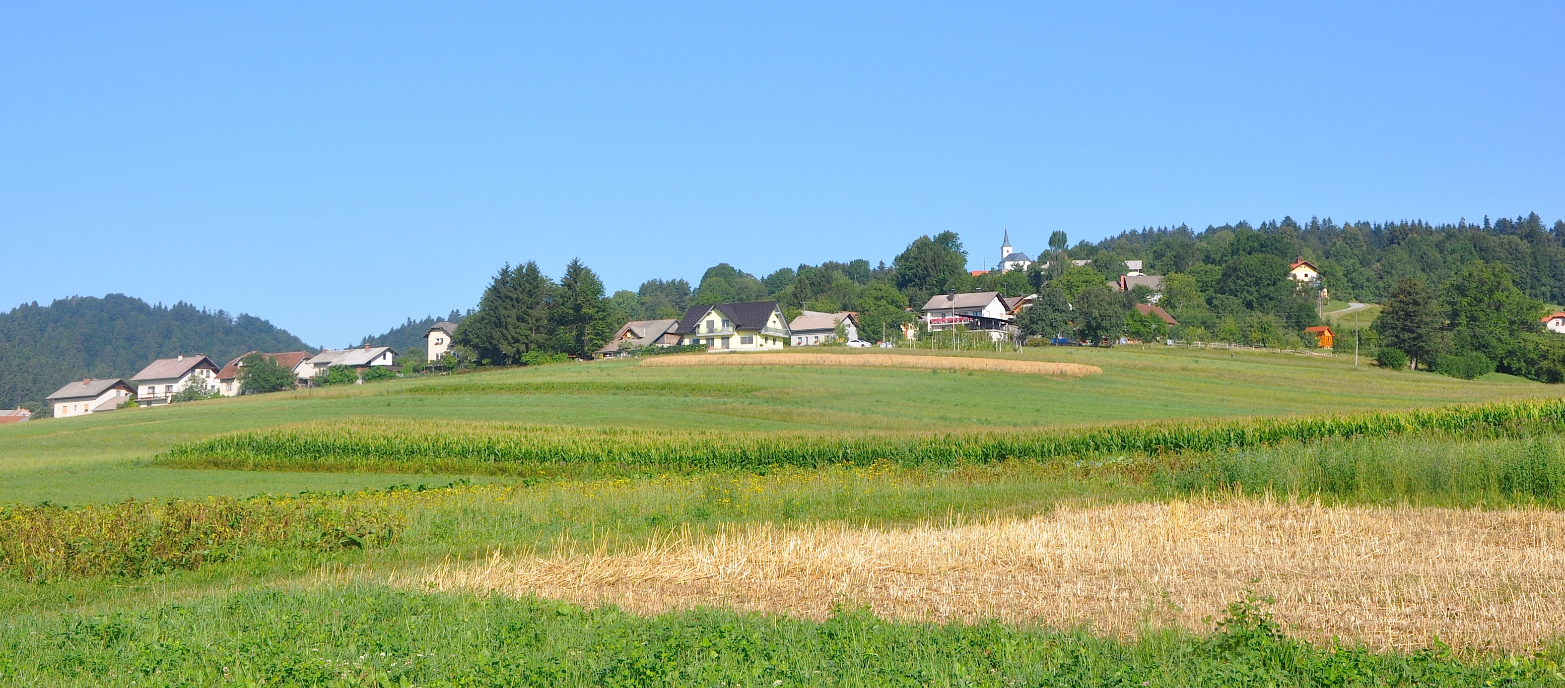 Zapotok, village in Slovenia